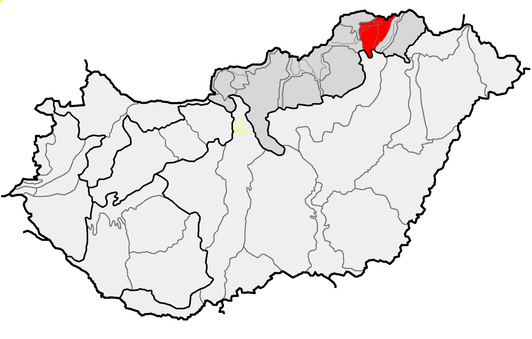 Location of geographical subregion of Cserehát (red) and macroregion of Északi-középhegység (gray) within subdivisions of Hungary.